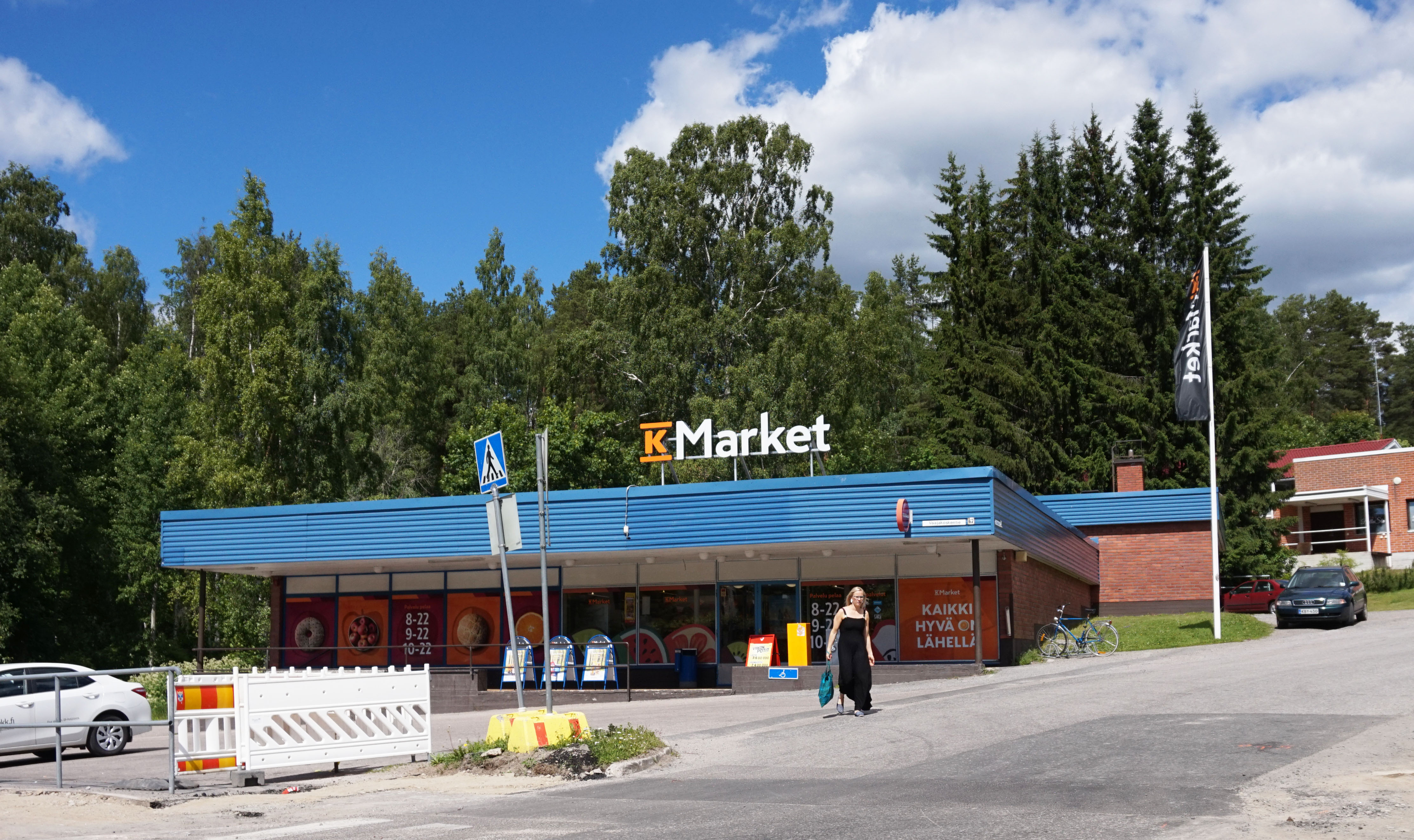 K-Market Halssila in Jyväskylä, Finland.This photograph was taken with a Sony ILCE-5000